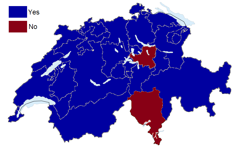 Swiss EU bilateral treaty referendum results by cantons, 2000